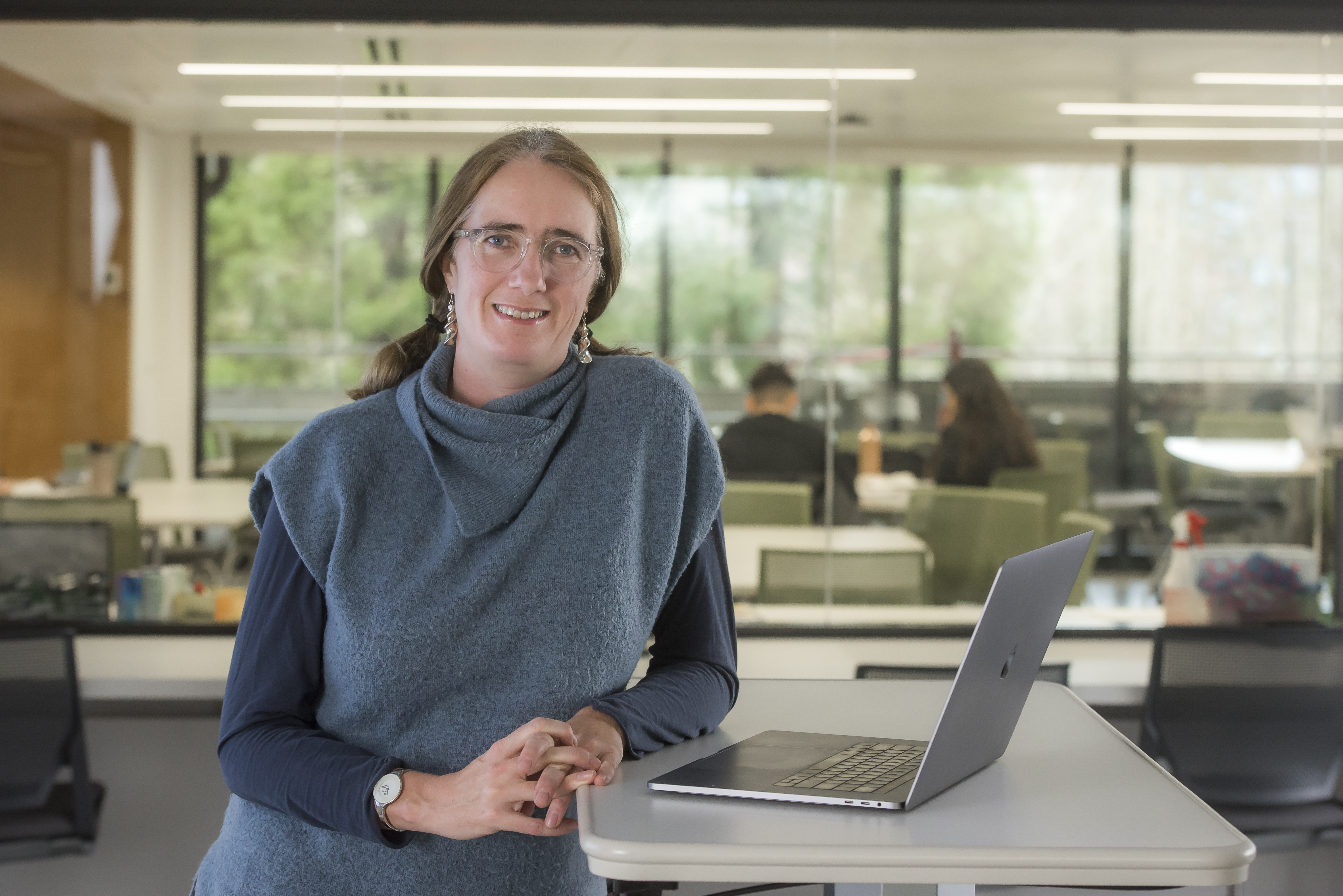 Caroline Colijn in 2020